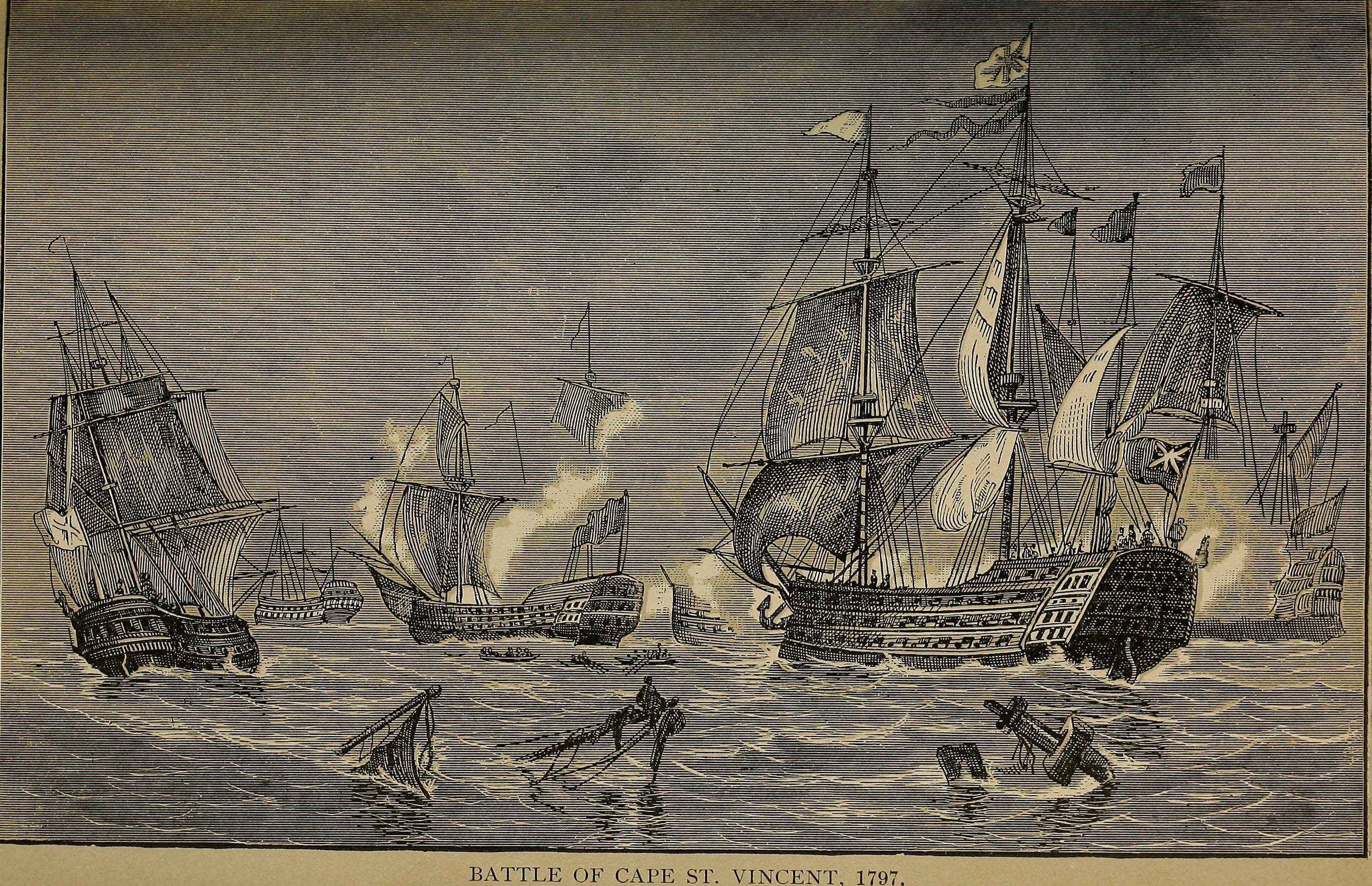 Title: Naval battles, ancient and modern Year: 1883 (1880s) Authors: Shippen, Edward, 1826-1911 Subjects: Naval battles Publisher: Philadelphia (etc.) J.C. McCurdy & co. Text Appearing Before Image: thebattle, and was prepared to surrender; her captain sentdown to request Trowbridge to come on deck and do himthe honor of striking the colors. This he very properlydeclined to do. Anecdotes of the action are too numerous for all tofind a place here. But we may mention that on board thecaptured French ships the cartridges were found to bemostly made of the fine painted vellum on which churchmusic was painted, and of the titles and preuves denoblesse of the principal French families, many hundredyears old, and Illuminated, in many instances, with thegenealogical tree. There was a decree of the FrenchConvention, applying the archives of the nobility to thatparticular purpose. The great convoy of ships from theWest Indies and America, consisting of more than twohundred sail of ships, of immense value, and of so muchimportance to the French government that they riskedthe loss of their great Brest fleet for its safety, arrivedsafely in port a few days after the battle of the first ofJune. Text Appearing After Image: BATTLE OF CAPE ST. VINCENT. 247 XVII. BATTLE OF CAPE ST. VINCENT. A. D. 1797.